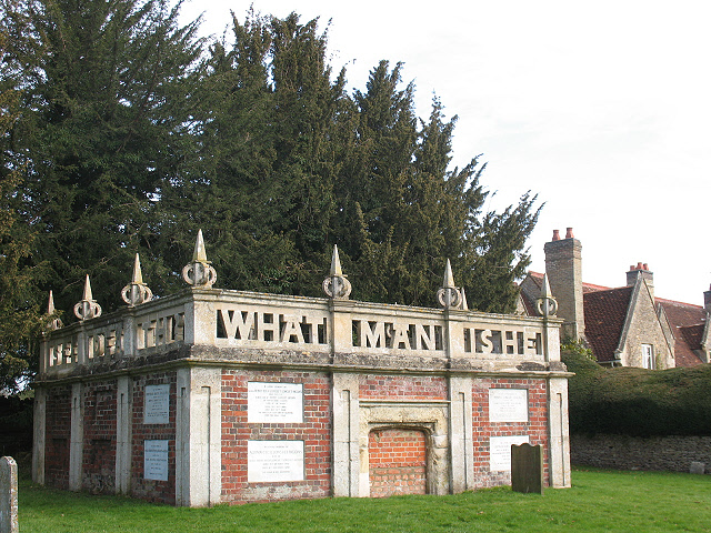 All Saints, Turvey: Higgins mausoleum Several of the members of the Longuet-Higgins family, historic Lords of the Manor of Turvey, are buried in this mausoleum in the north-east corner of the churchyard. It is separately listed grade 2. The Biblical quotation that starts on the side shown here runs round all four sides: "What man is he / that liveth / and shall not / see death?"